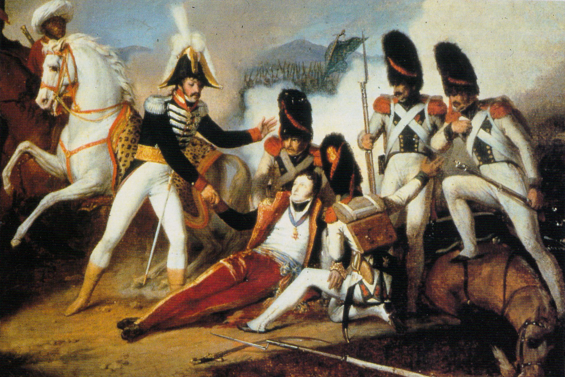 Carlo Filangieri (1784-1867) wounded with King Joachim Murat (1767-1815). Framework on display at Palazzo Como (Naples) houses the Museum Filangieri.